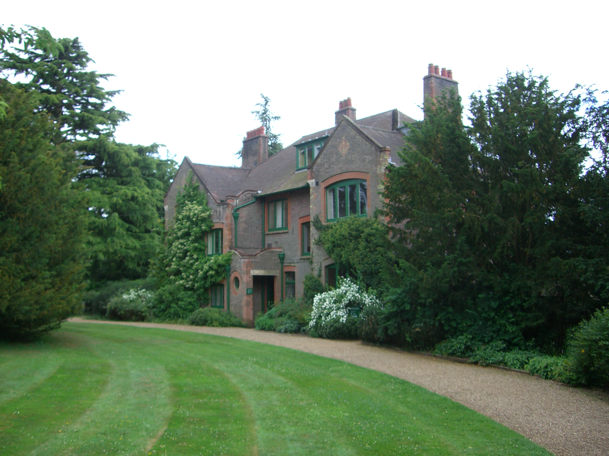 Shaw's Corner